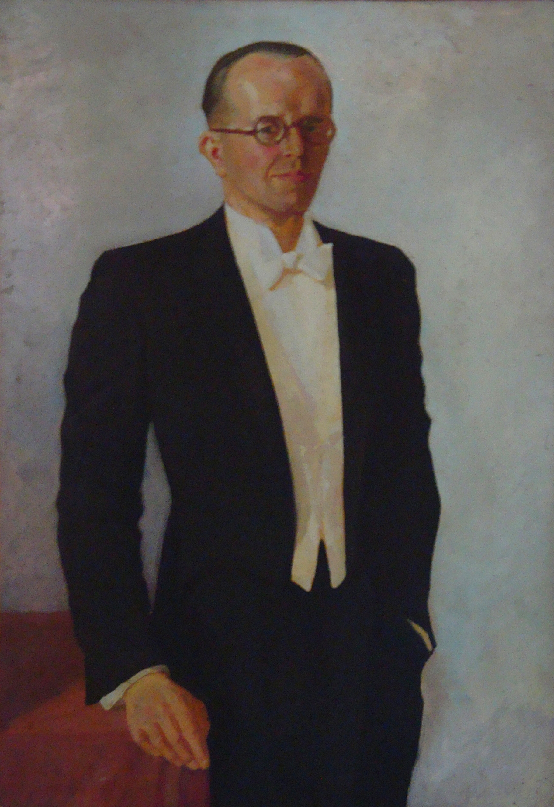 photo of the painting by Zdzislaw Pagowski, featuring Maurycy Klimecki